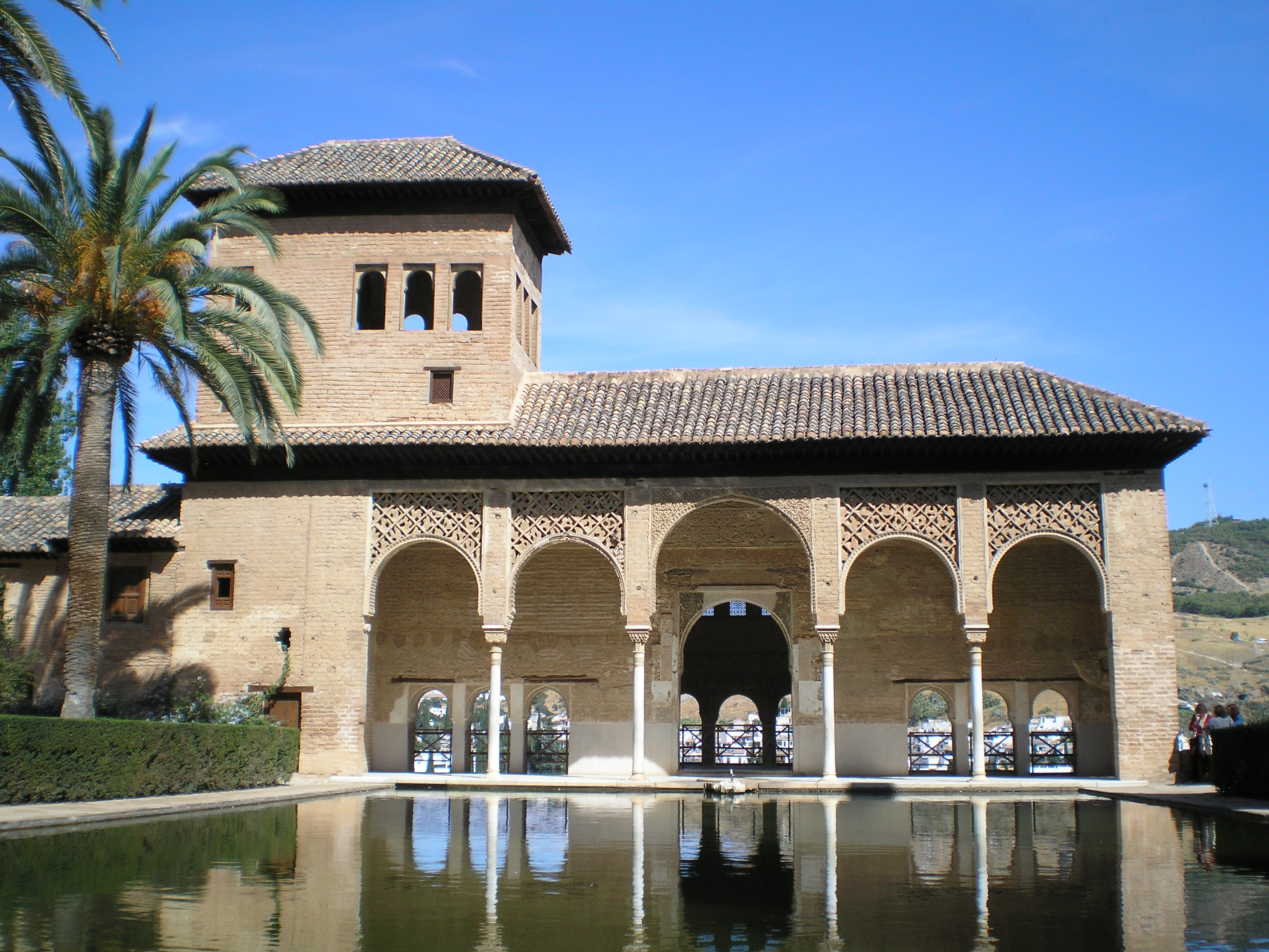 El Partal, in Alhambra, Granada, Spain.